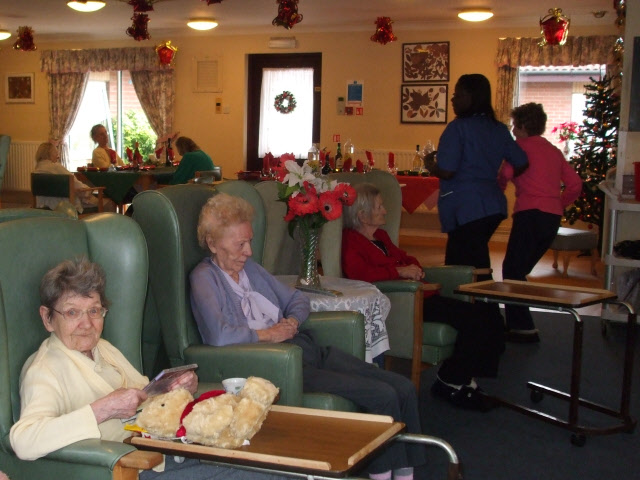 Christmas Day in a nursing home. Noon on Christmas Day and the residents of Gallions View 369824 are waiting for their Christmas lunch.